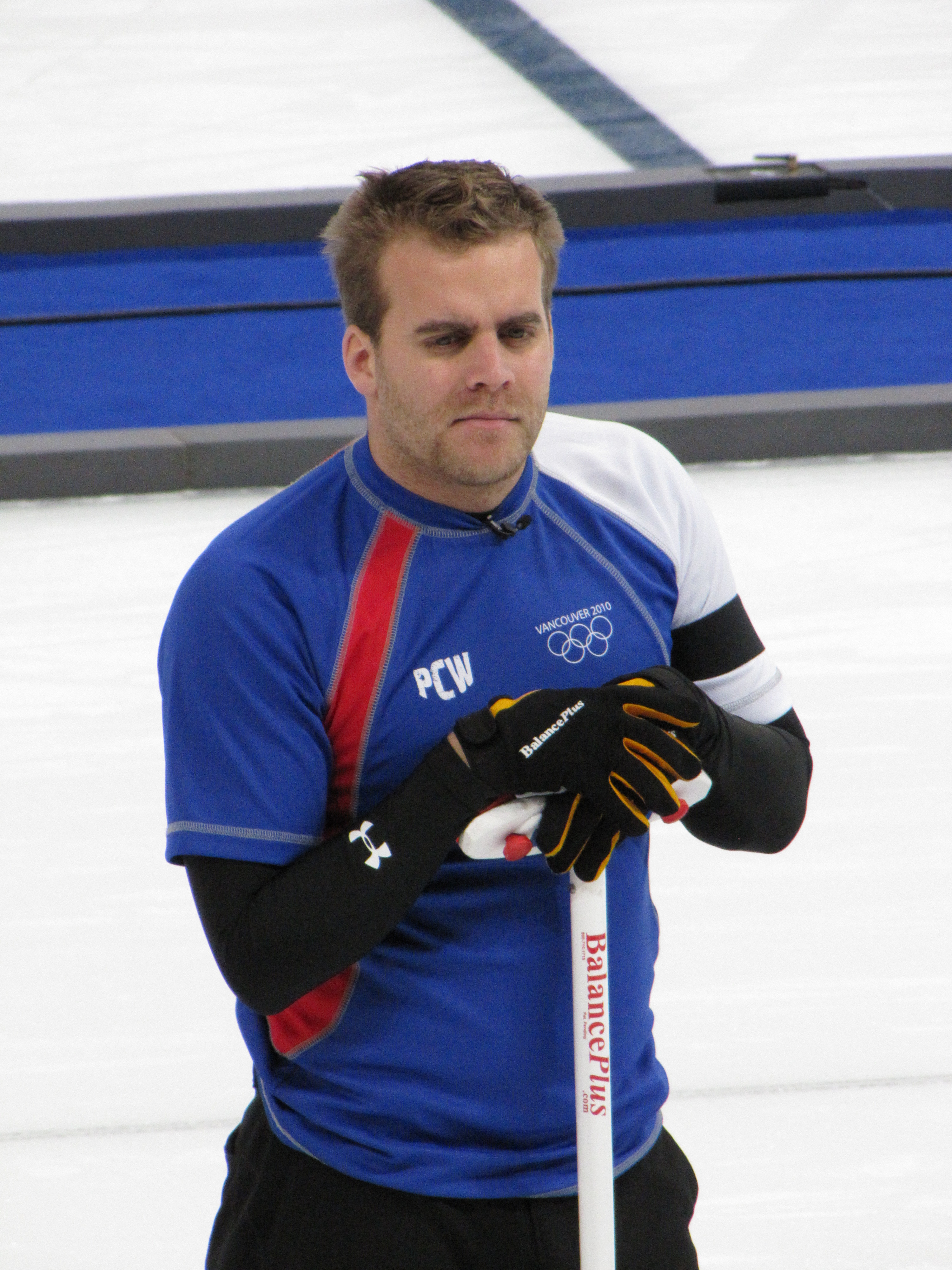 French curler Tony Angiboust at the 2010 Winter Olympic Games, Vancouver, Canada